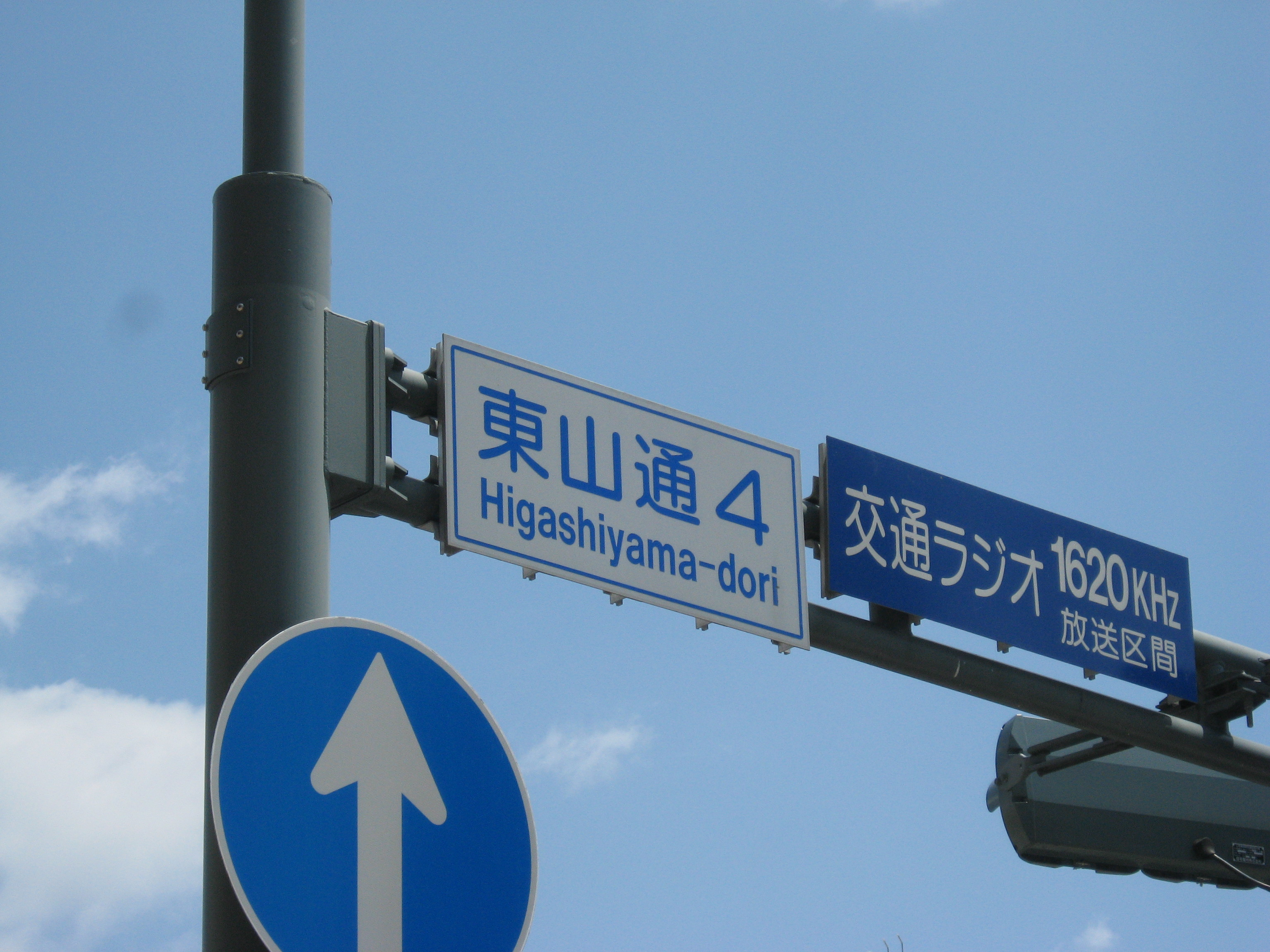 Higashiyama-dori 4-chome Intersection